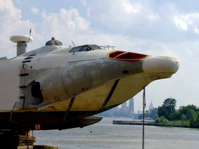 A-90 Orlyonok